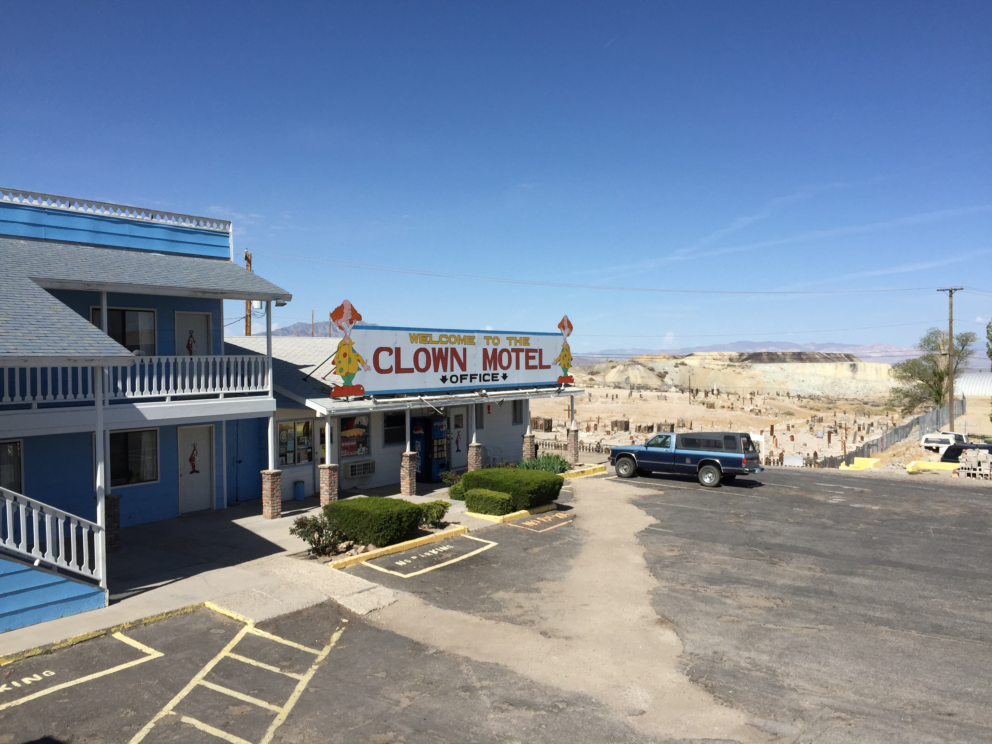 The Clown Motel along Main Street (U.S. Routes 6 and 95) in Tonopah, Nevada